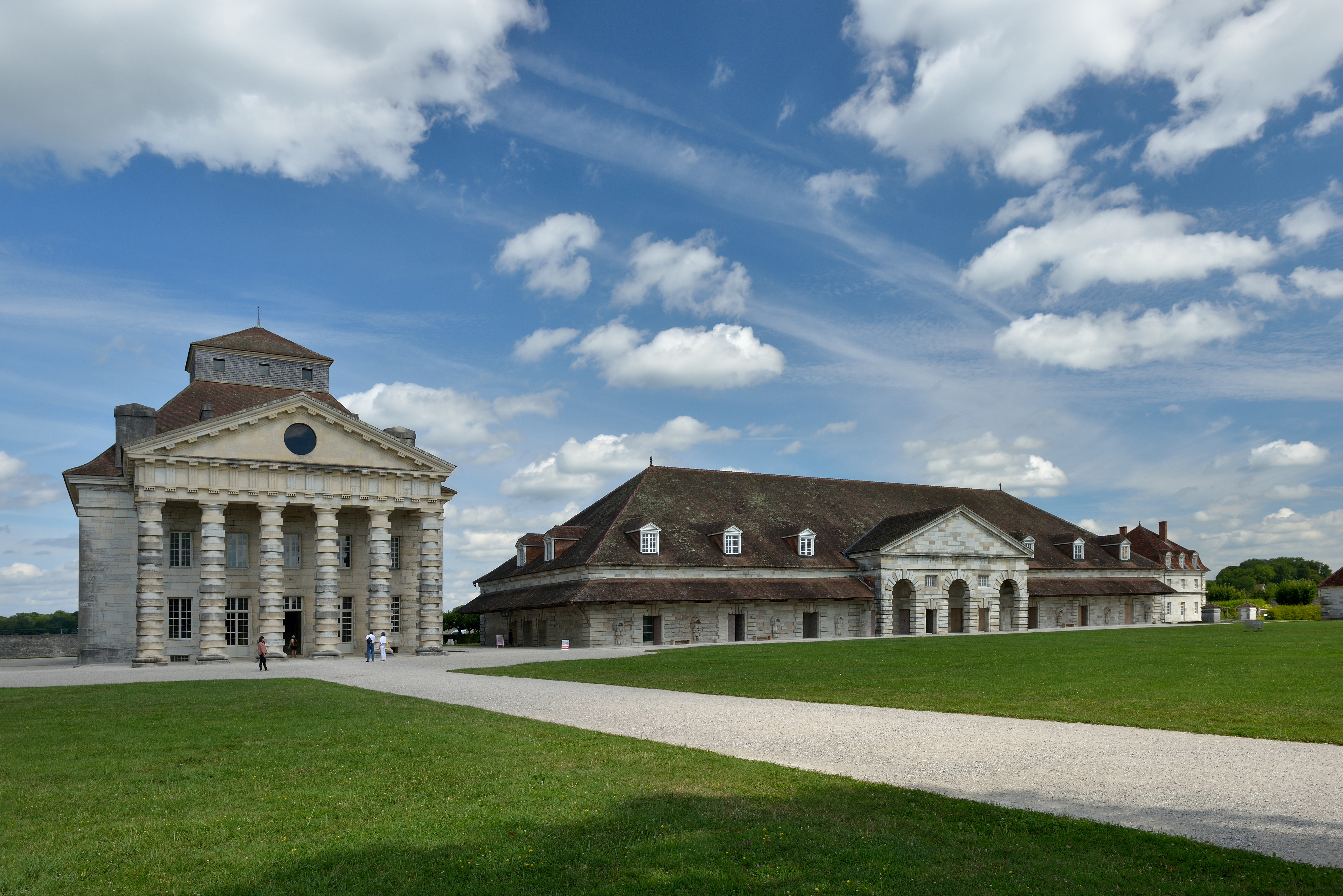 The Royal Saltworks at Arc-et-Senans in France